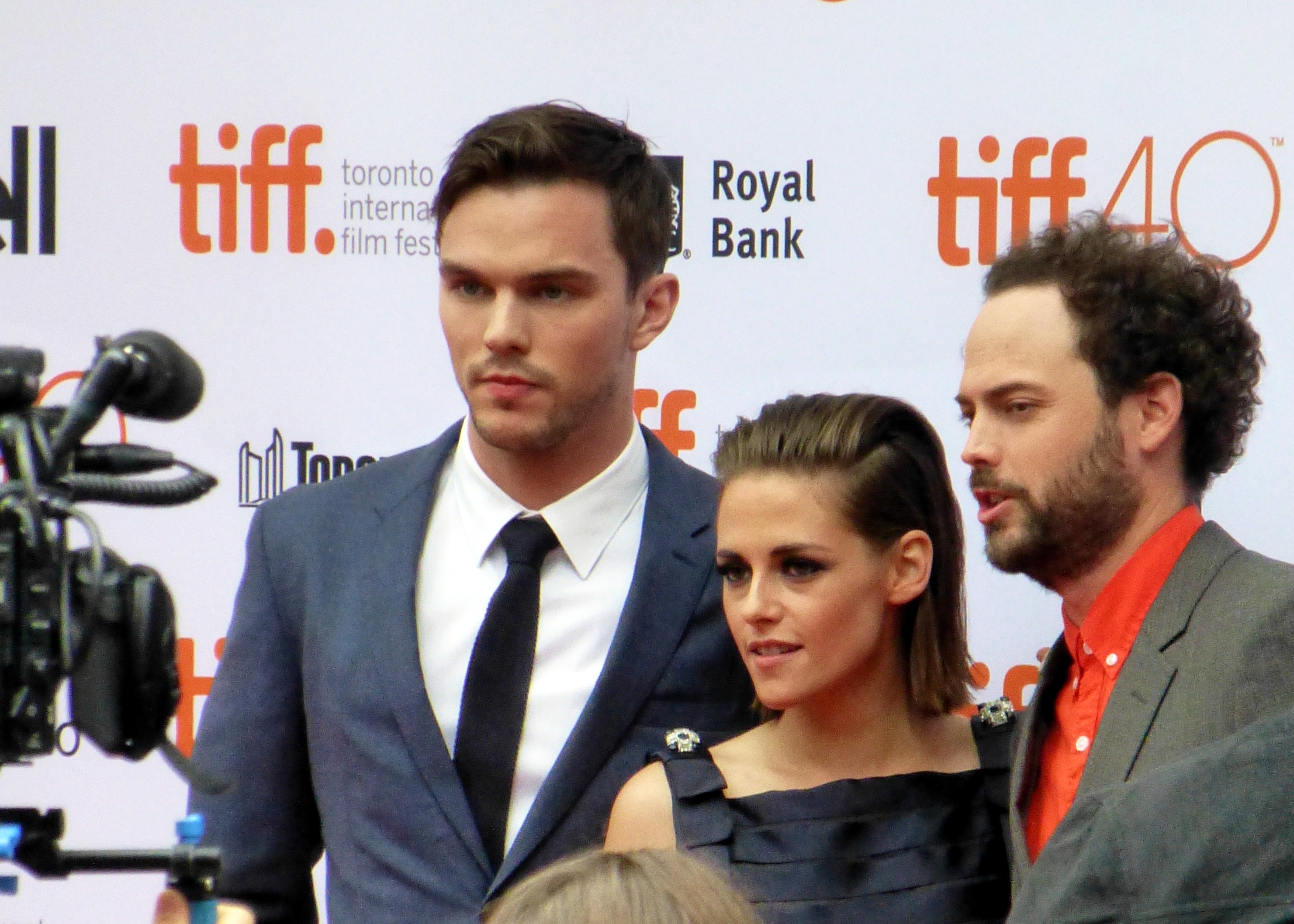 Nicholas Hoult, Kristen Stewart, and director Drake Doremus at the premiere of Equals, 2015 Toronto Film Festival